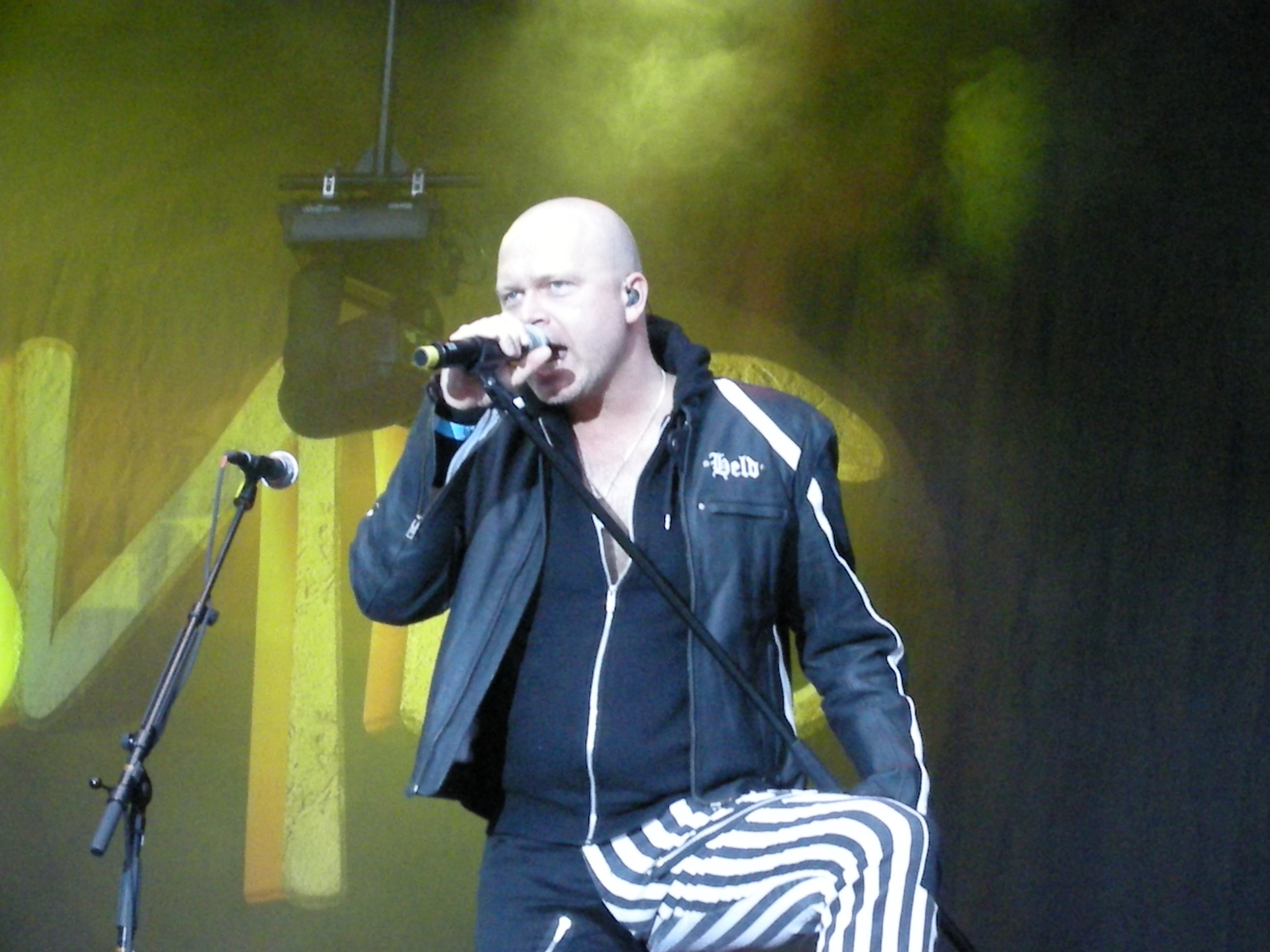 German heavy metal group Unisonic at Skogsröjet 2012